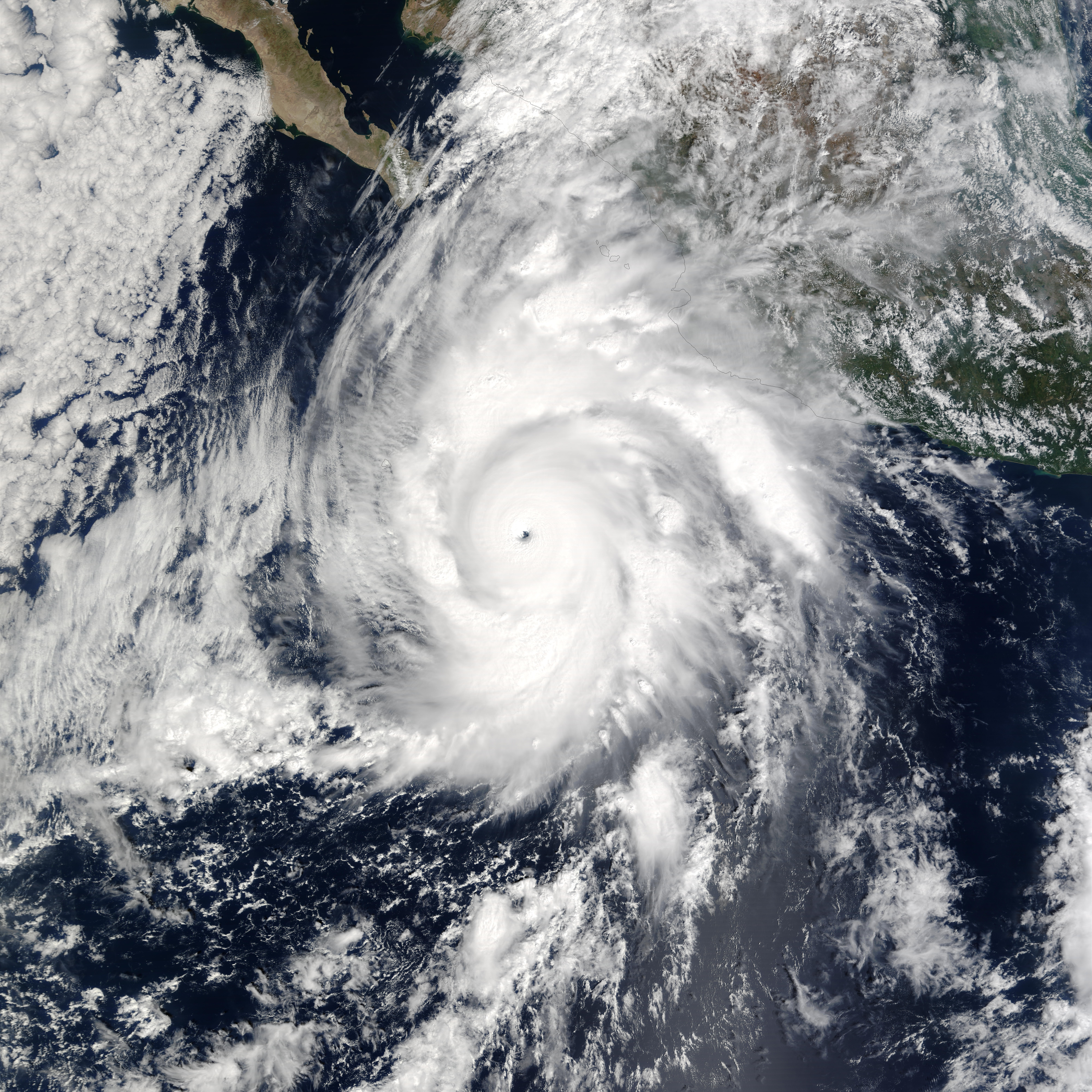 Packing winds of 160 miles per hour (257 km per hour), Hurricane Kenna intensified into a Category 5 storm on Oct. 25, 2002. Kenna is shown in this true-color image bearing down on Mexico’s west coast. This scene was acquired by the Moderate Resolution Imaging Spectroradiometer (MODIS), flying aboard NASA’s Terra satellite, on October 24. Category 5 hurricanes, the strongest category, are capable of causing catastrophic damage. The storm is predicted to make landfall by late morning on Oct. 25.